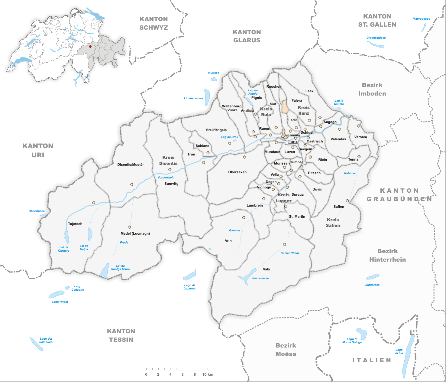 Municipality Schnaus